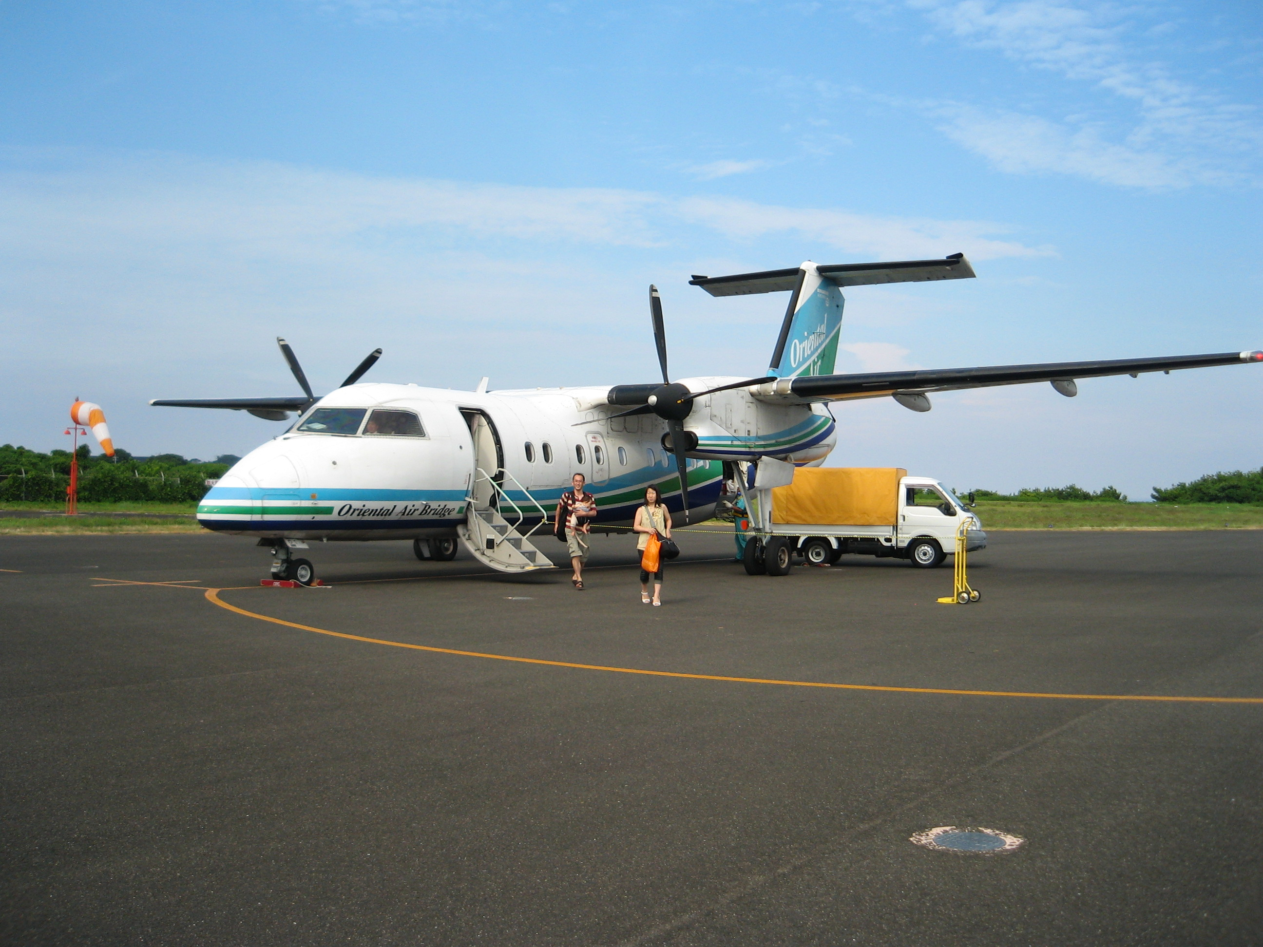 One of the 2 Oriental Air Bridge Dash 8-Q201 aircraft at Iki Airport.